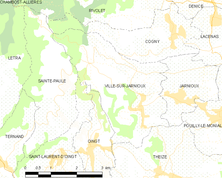 Map of French municipality